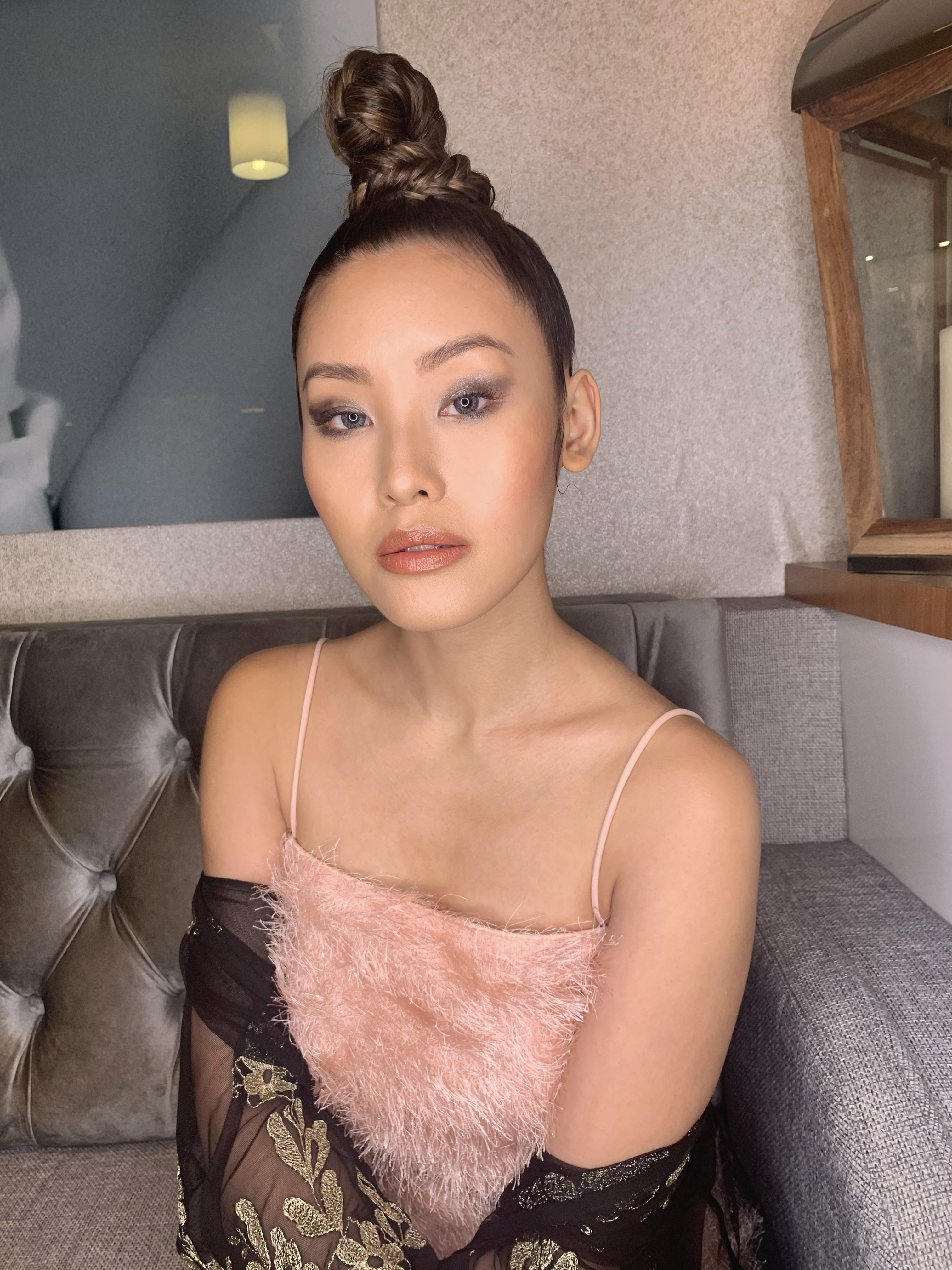 Jarry Lee in 2020.